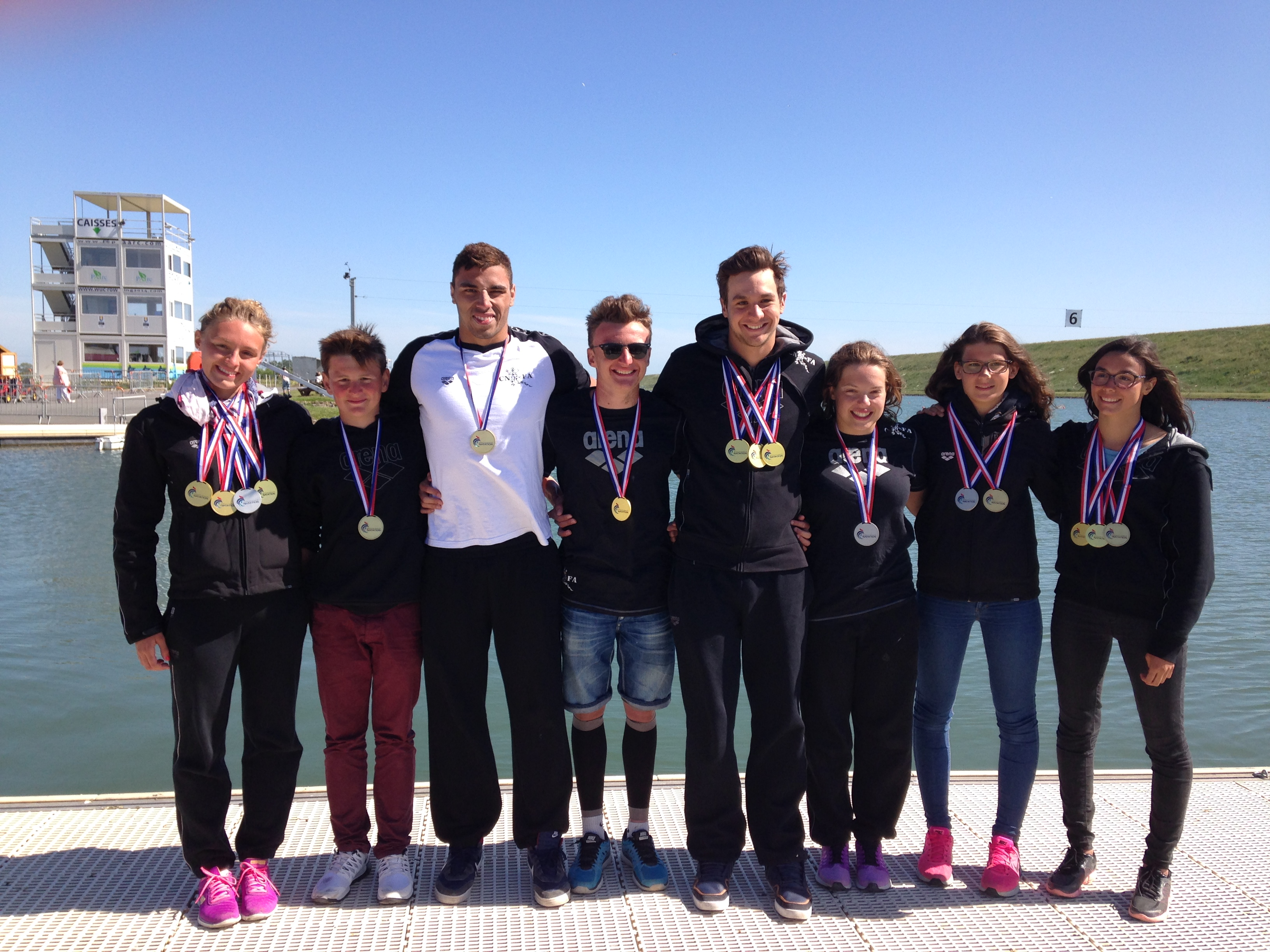 2015 French Open-Water Swimming Championships in Gravelines : Medal of CNFA